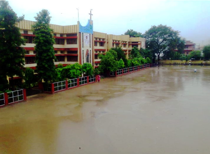 The main building of St. Joseph's Boys' school located in the beautiful city of Jalandhar in the royal state of Punjab.